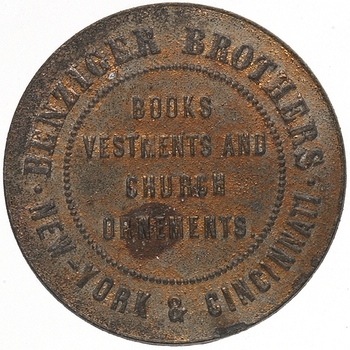 Benziger Brothers token. Obverse Legend: Above, BENZIGER BROTHERS l. to r., round edge. Below, NEW YORK and CINCINNATI, l. to r. round edge/ BOOKS/VESTMENTS AND/CHURCH ORNEMNTS in four lines in field. Axis: 12 Edge: Plain. Manufacture: ST Material: gwm Measurements: 26 mm Weight: 4.288 grams